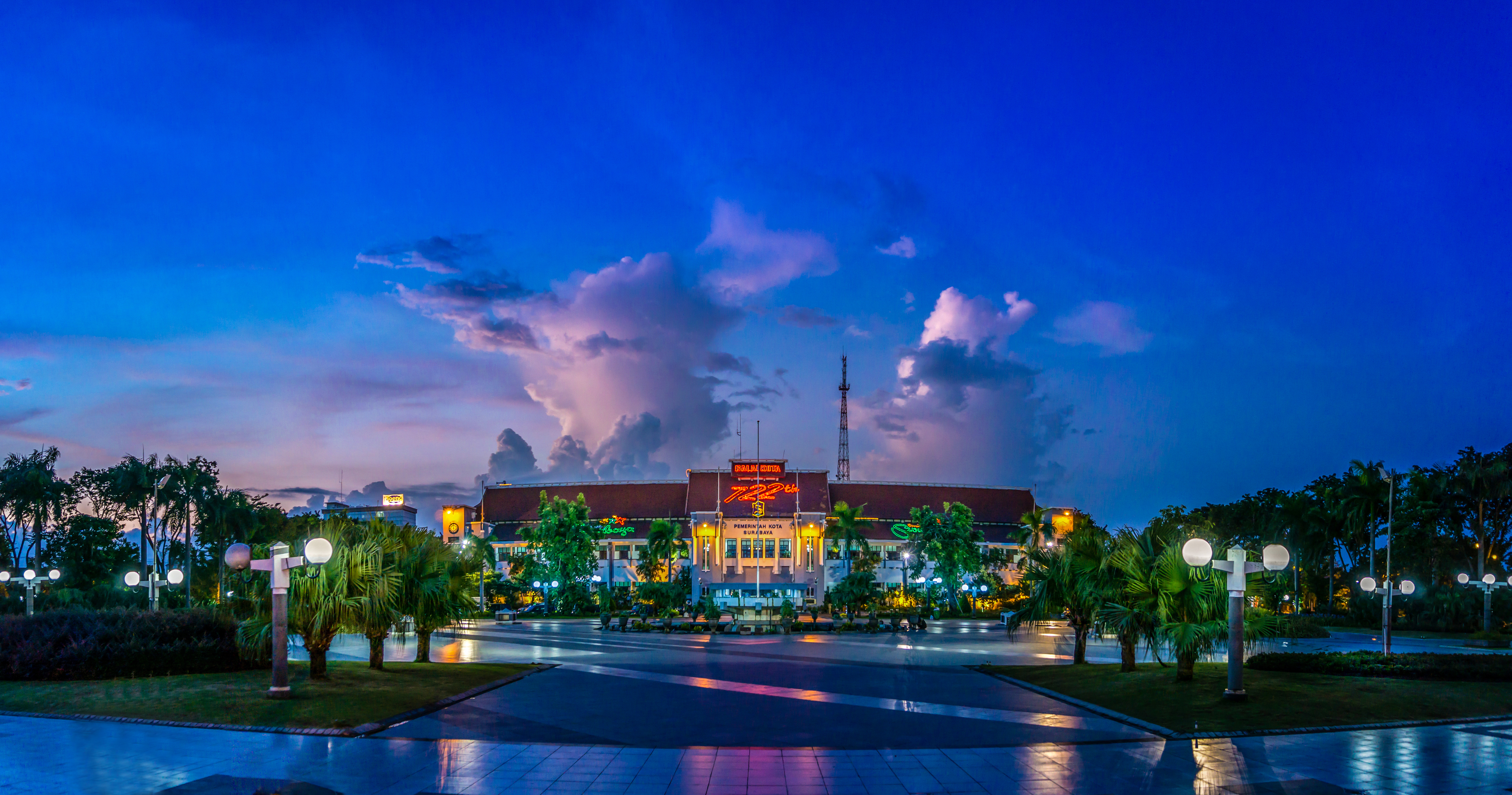 Surabaya City Hall at dawn in 2015 by Yamin Nathaniel